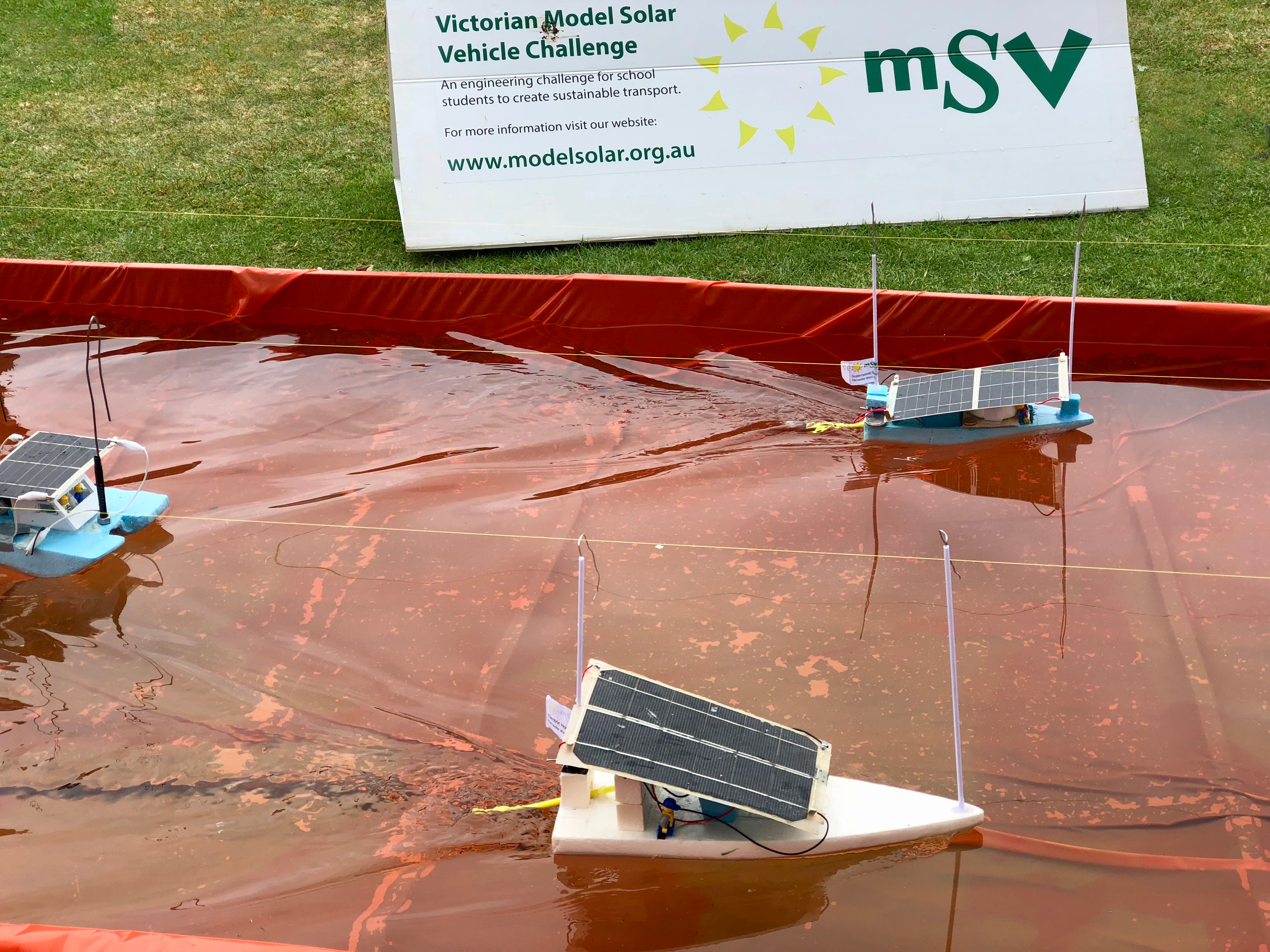 Solar powered boats racing at the Victorian Model Solar Challenge at Scienceworks, Melbourne.